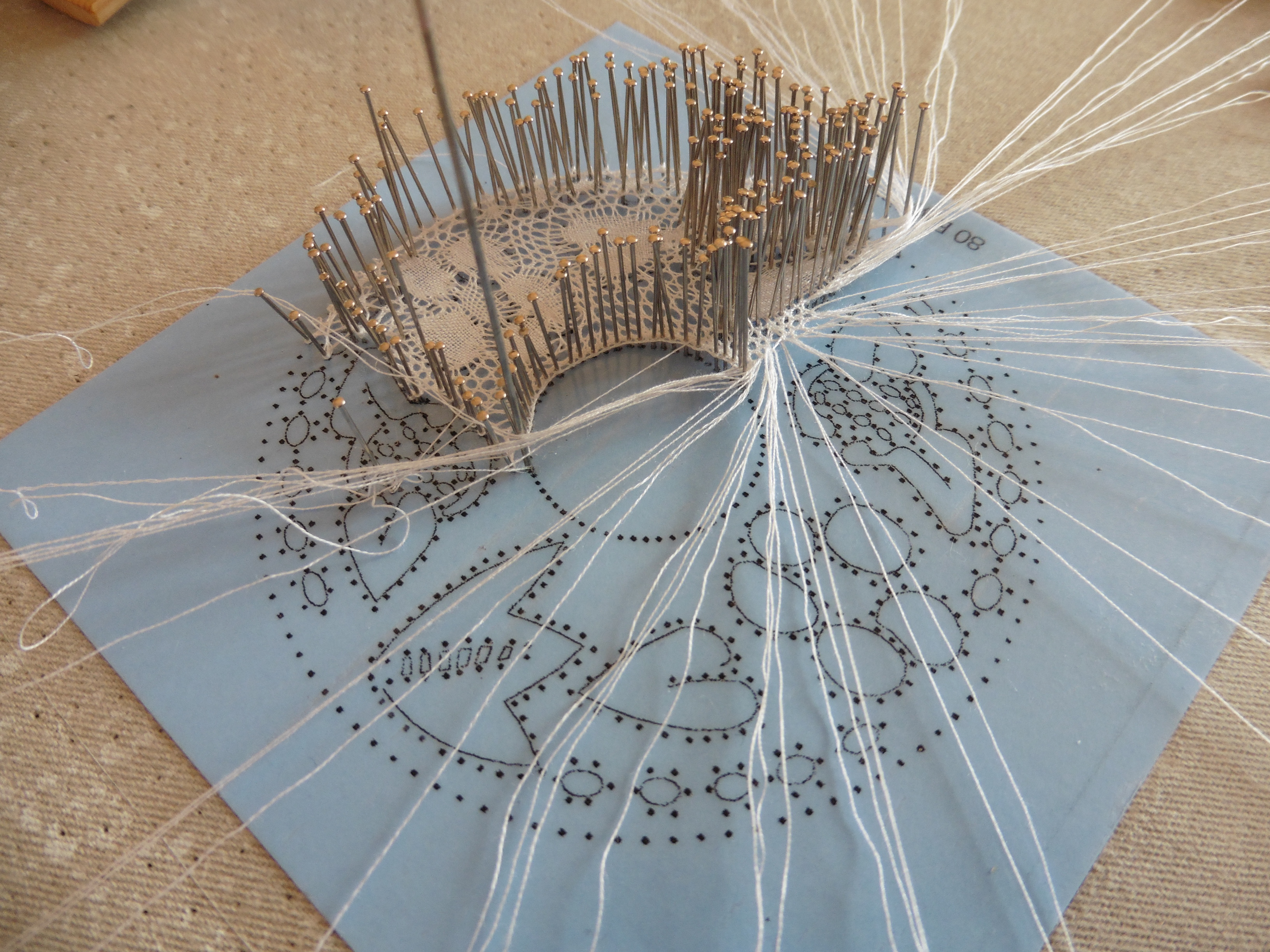 Binche Lace in progress (close view)